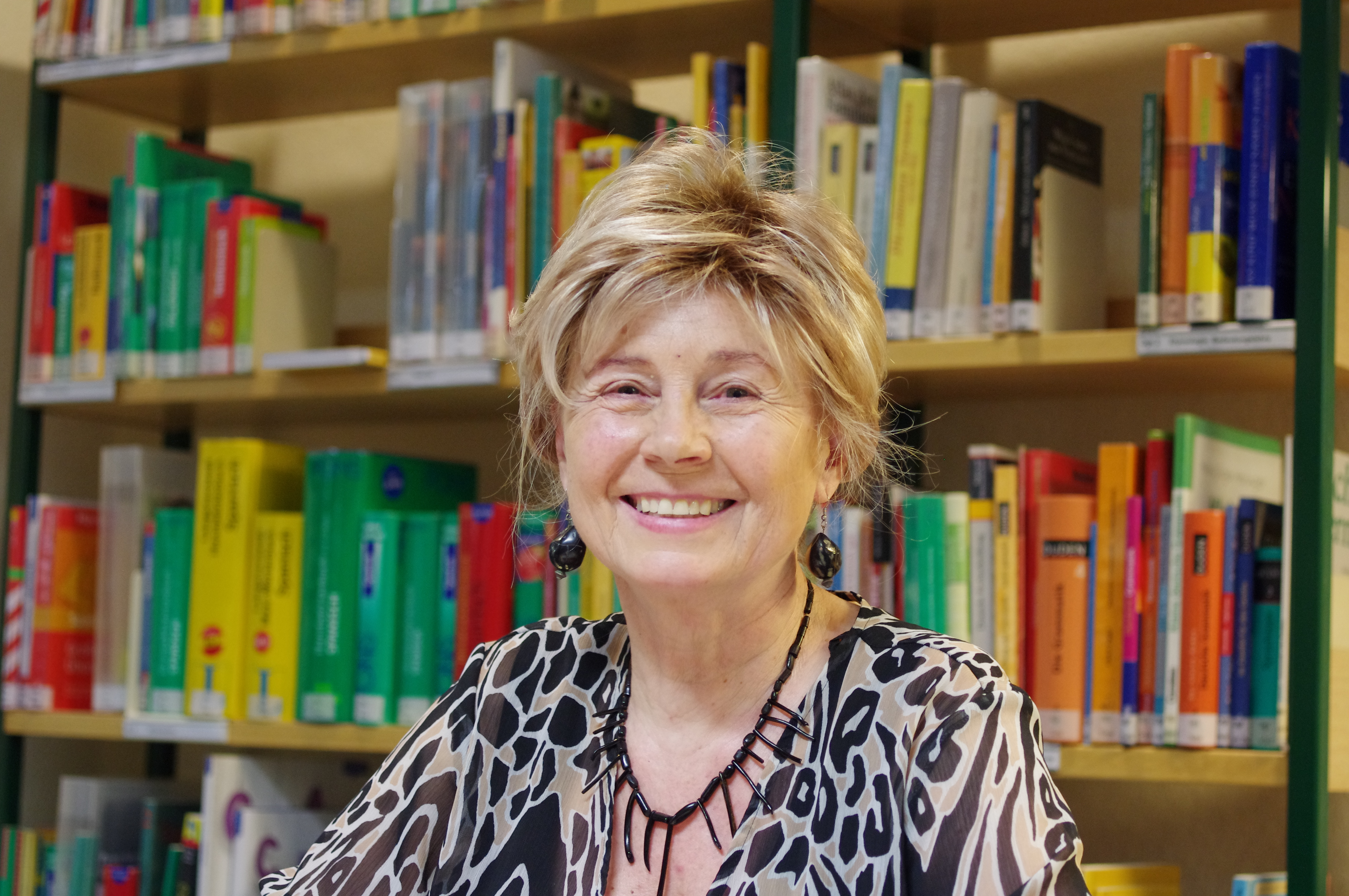 Reading of Carmen Rohrbach at Schorndorf city library (Germany)